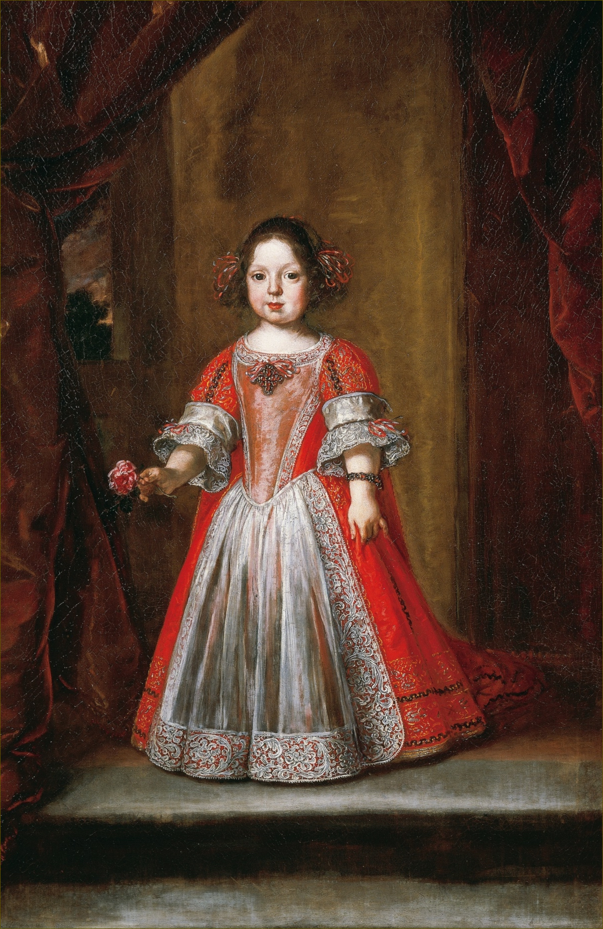 Portrait of Anna Maria Luisa de' Medici (1667-1743)